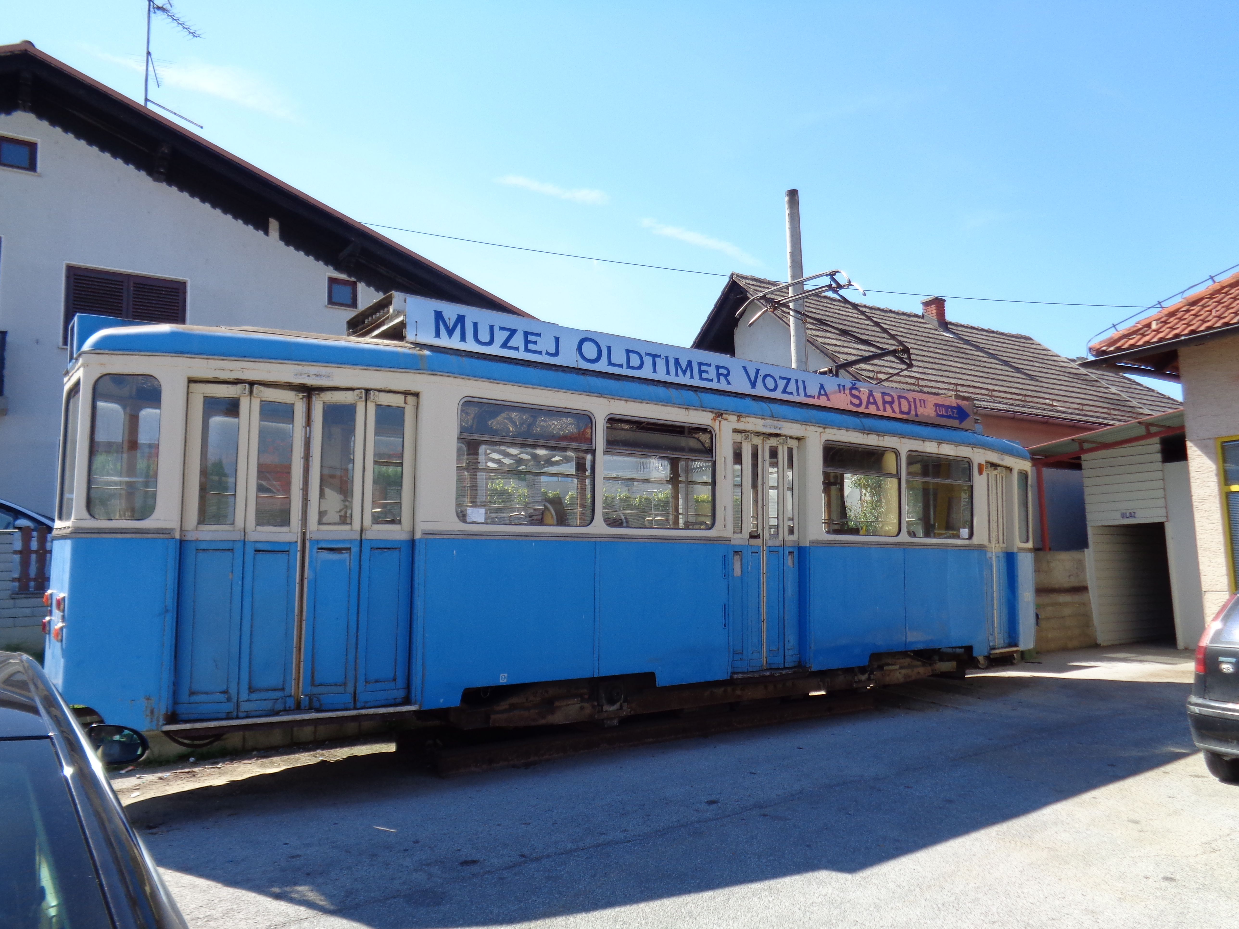 Selnica, Međimurje County, Croatia - the Oldtimer Museum ´´Šardi´´